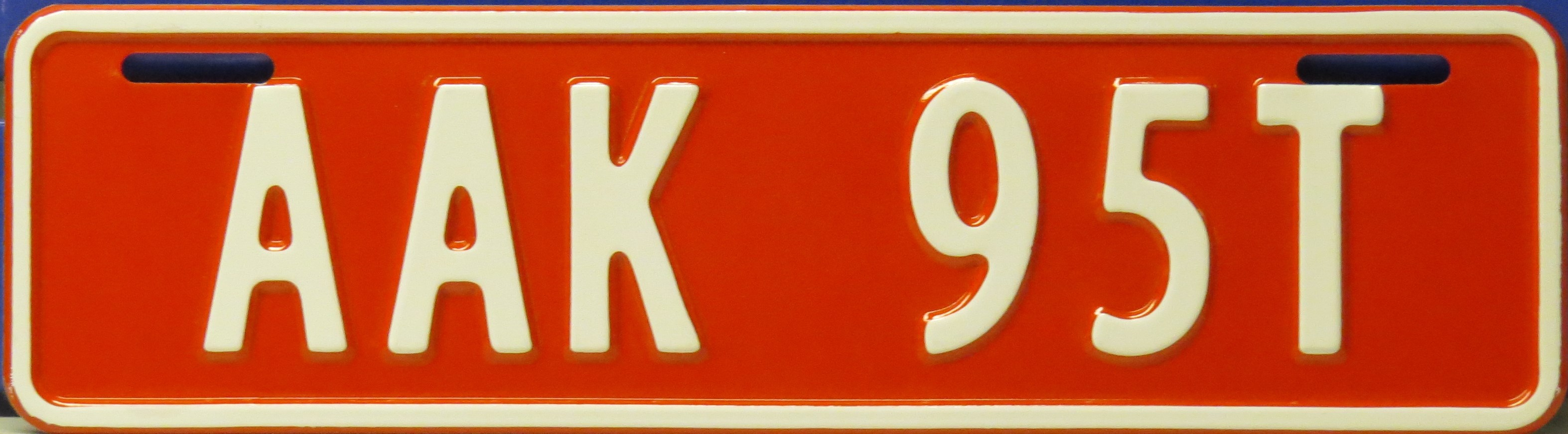 Trade plate for trailers from Norway. Introduced june 2015